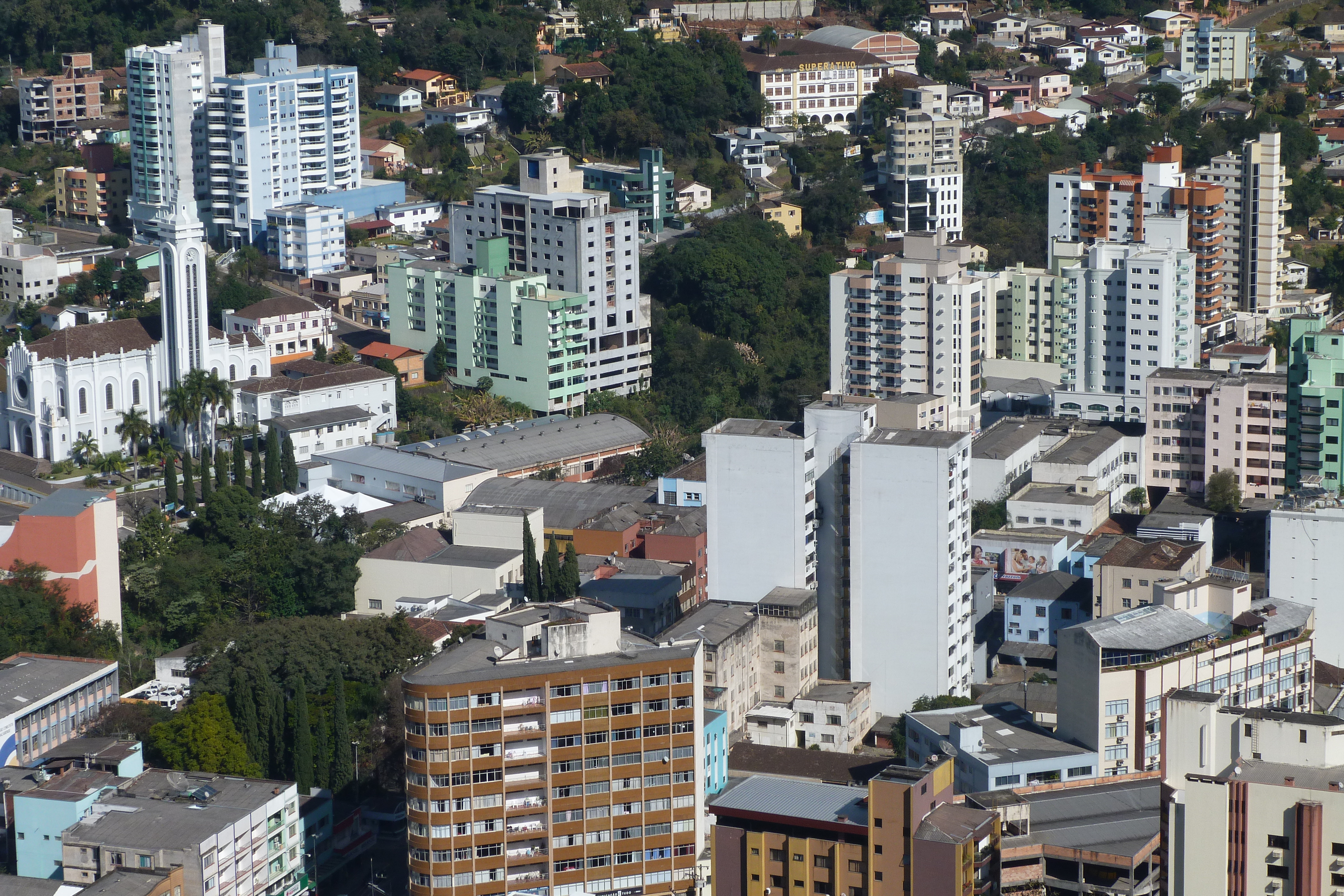 Buildings in Joaçaba.